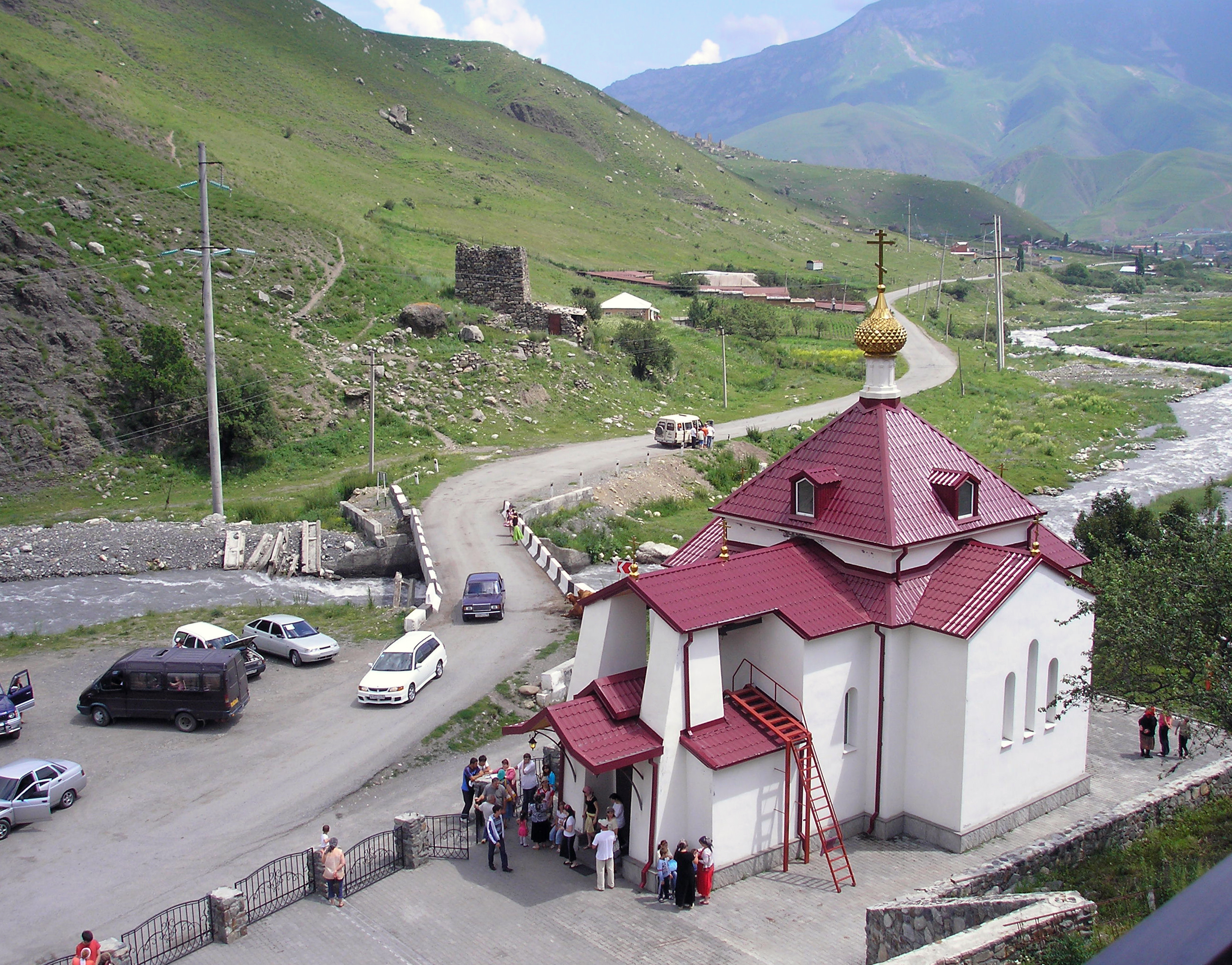 Alanian Dormition Monastery in North Ossetia, Russia